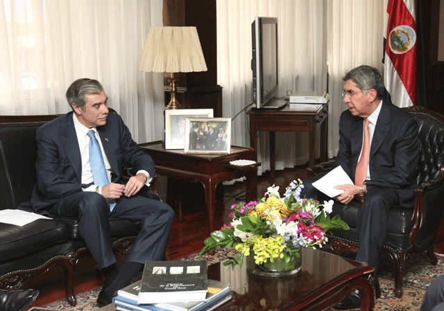 President of Costa Rica Oscar Arias Sanchez (right) with U.S. Secretary of Commerce Carlos Gutierrez. San Jose, Costa Rica (Sept. 30)—As part of a business development mission to the Dominican Republic and Costa Rica, Commerce Secretary Carlos M. Gutierrez met with Costa Rica’s President Oscar Arias and discussed the importance of joining the Dominican Republic-Central America-United States Free Trade Agreement (CAFTA-DR). Costa Rica is the only country yet to implement CAFTA-DR, and is working to implement the agreement soon to ensure its investors have permanent access to their most important market, the United States